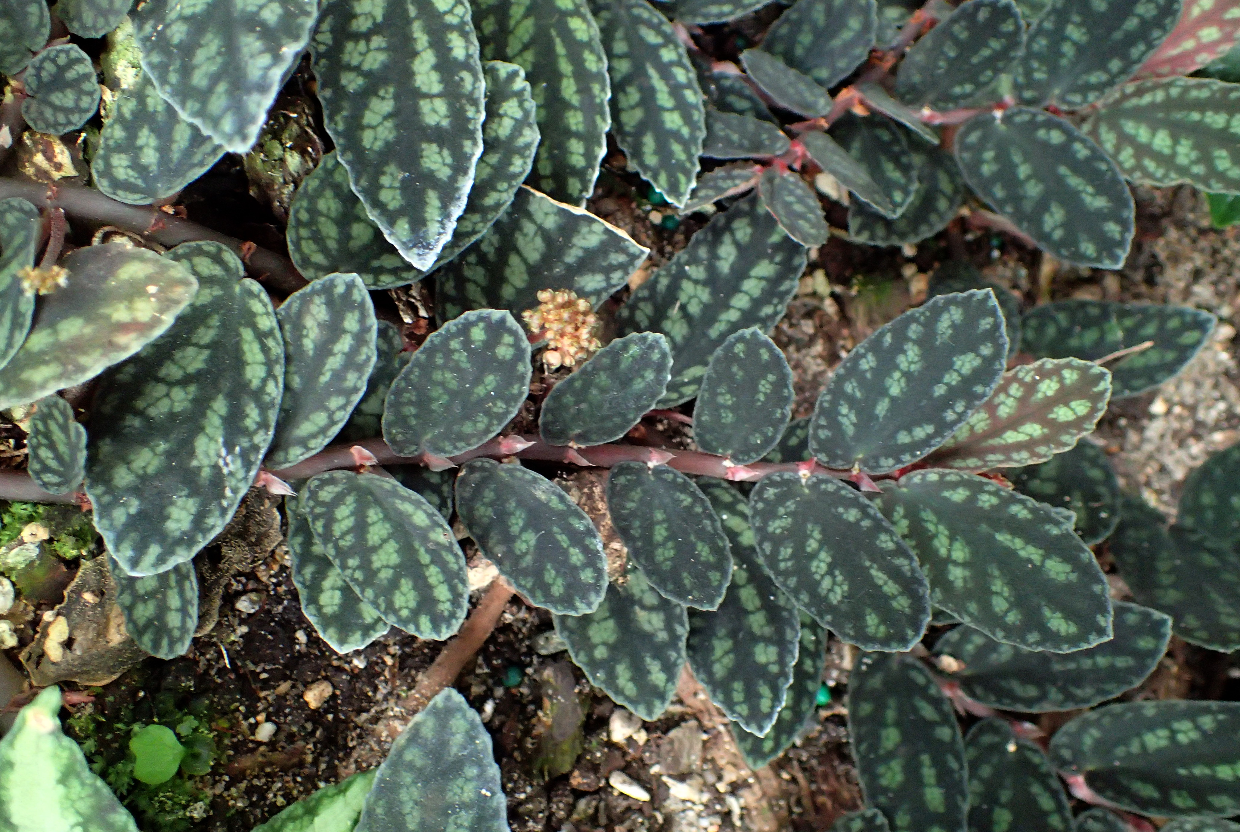 Pellionia pulchra in Lincoln Park Conservatory, Chicago